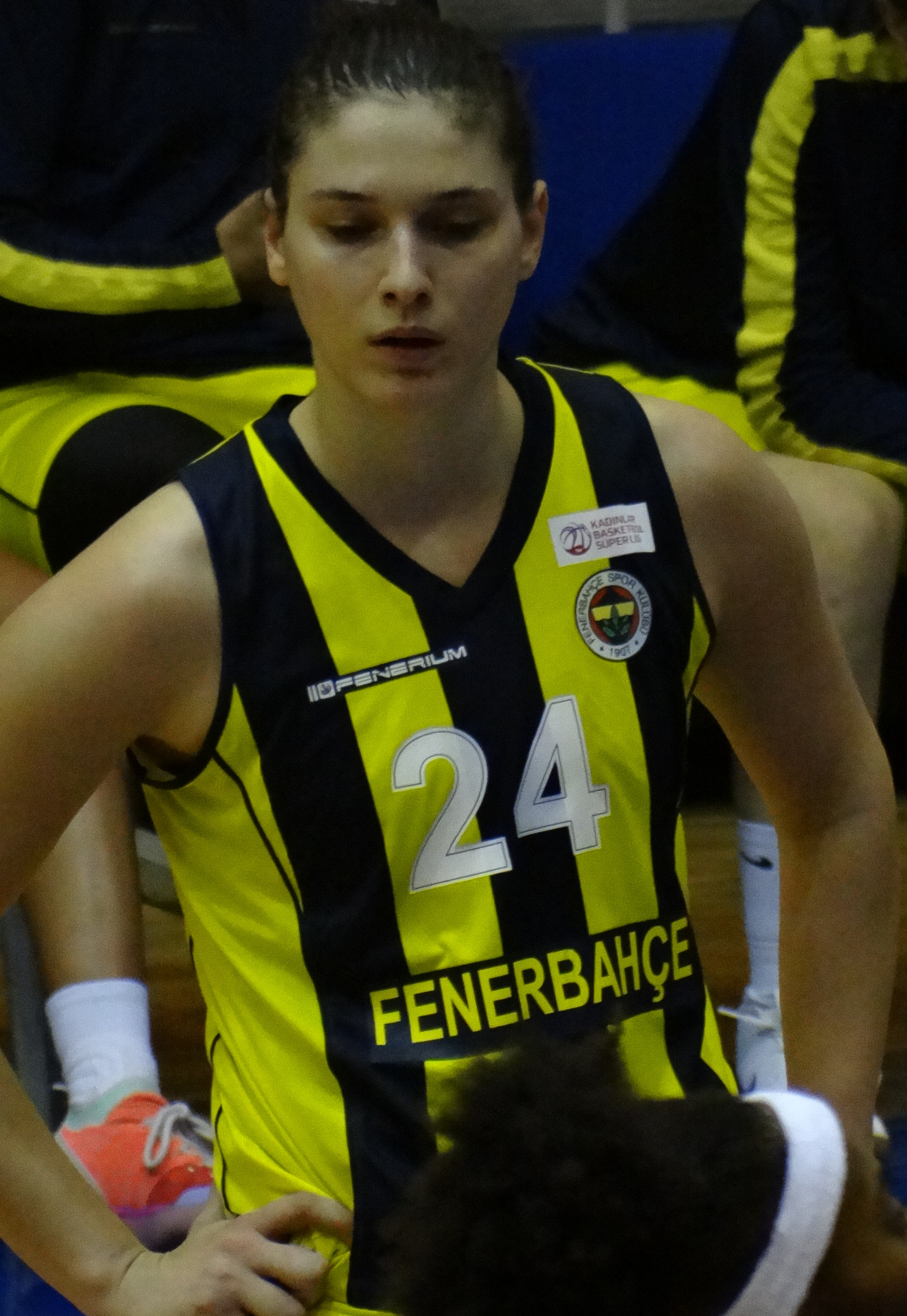 Cecilia Zandalasini 24 Fenerbahçe women's basketball TWBL 20181216